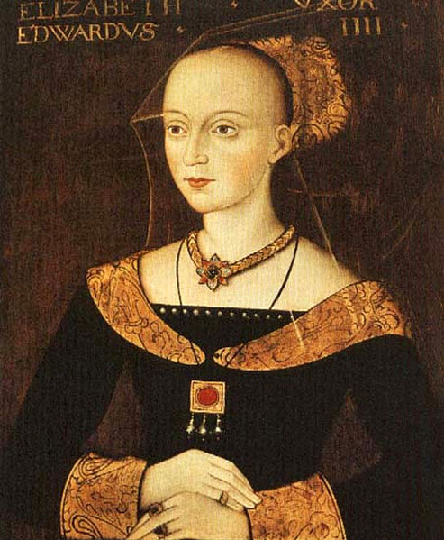 Elizabeth Woodville (1437-1492), Queen Consort of Edward IV of England. The portrait of her shown here is probably a multiple-generation copy of one taken from life. The College has several versions in differing states. She is shown posed in the high fashion of the day, with strained back hair and a partial veil.